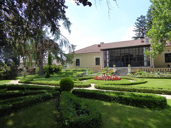 Manor House in Koniarovce